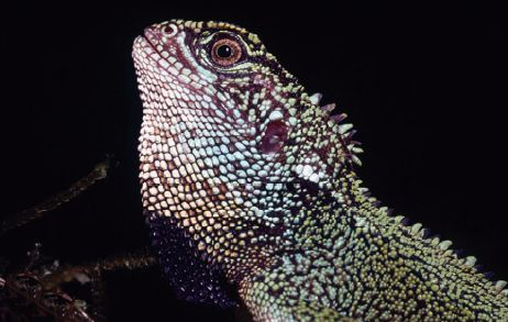 Male of Enyalioides praestabilis (KU 169854).